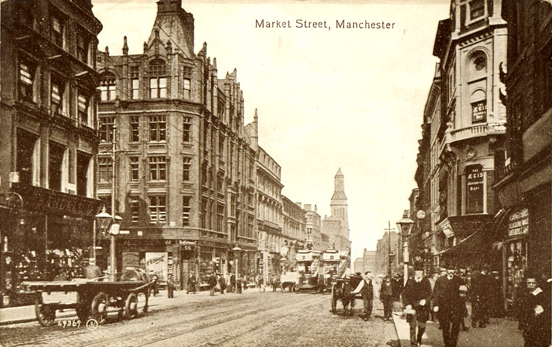 An old postcard of Market Street in Manchester. Some of the buildings to the left still exist. The buildings on the right were cleared to make space for the Manchester Arndale.